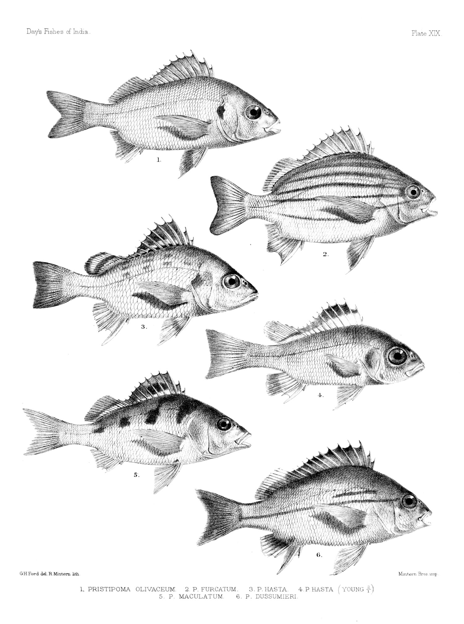 1 – Pristipoma olivaceum (=Pomadasys olivaceus), 2 – Pristipoma furcatum (=Pomadasys furcatus), 3 – Pristipoma hasta (=Pomadasys argenteus), 4 – Pristipoma hasta (=Pomadasys argenteus, young specimen, ×2), 5 – Pristipoma maculatum (=Pomadasys maculatus), 6 – Pristipoma dussumieri (=Pomadasys guoraca).